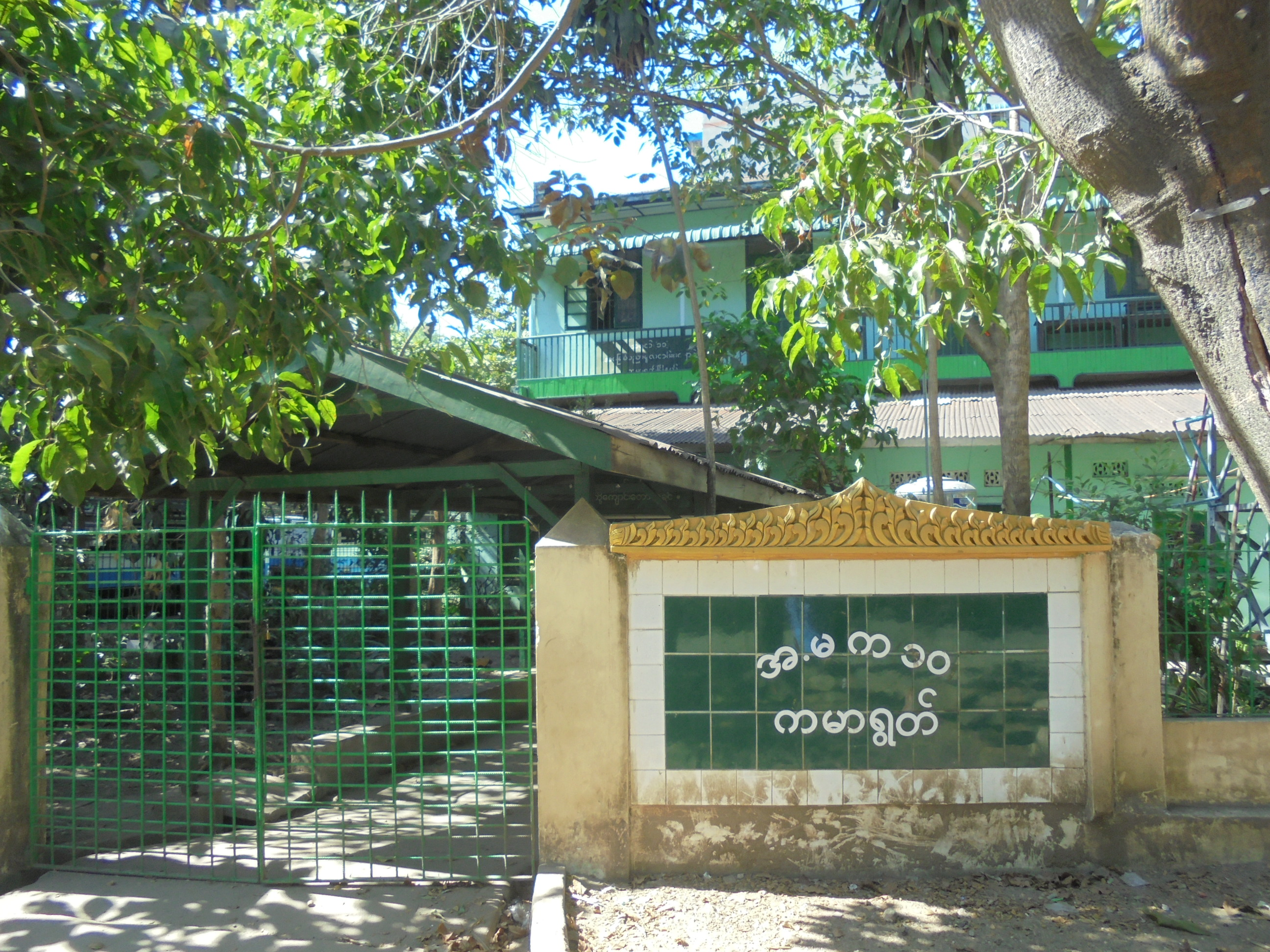 Basic Education Primary School No. 10 Kamayut